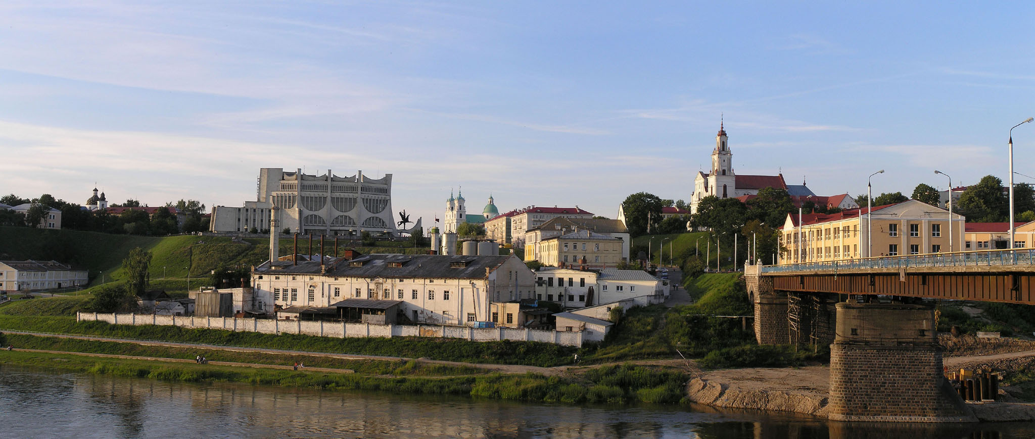 Hrodna Downtown